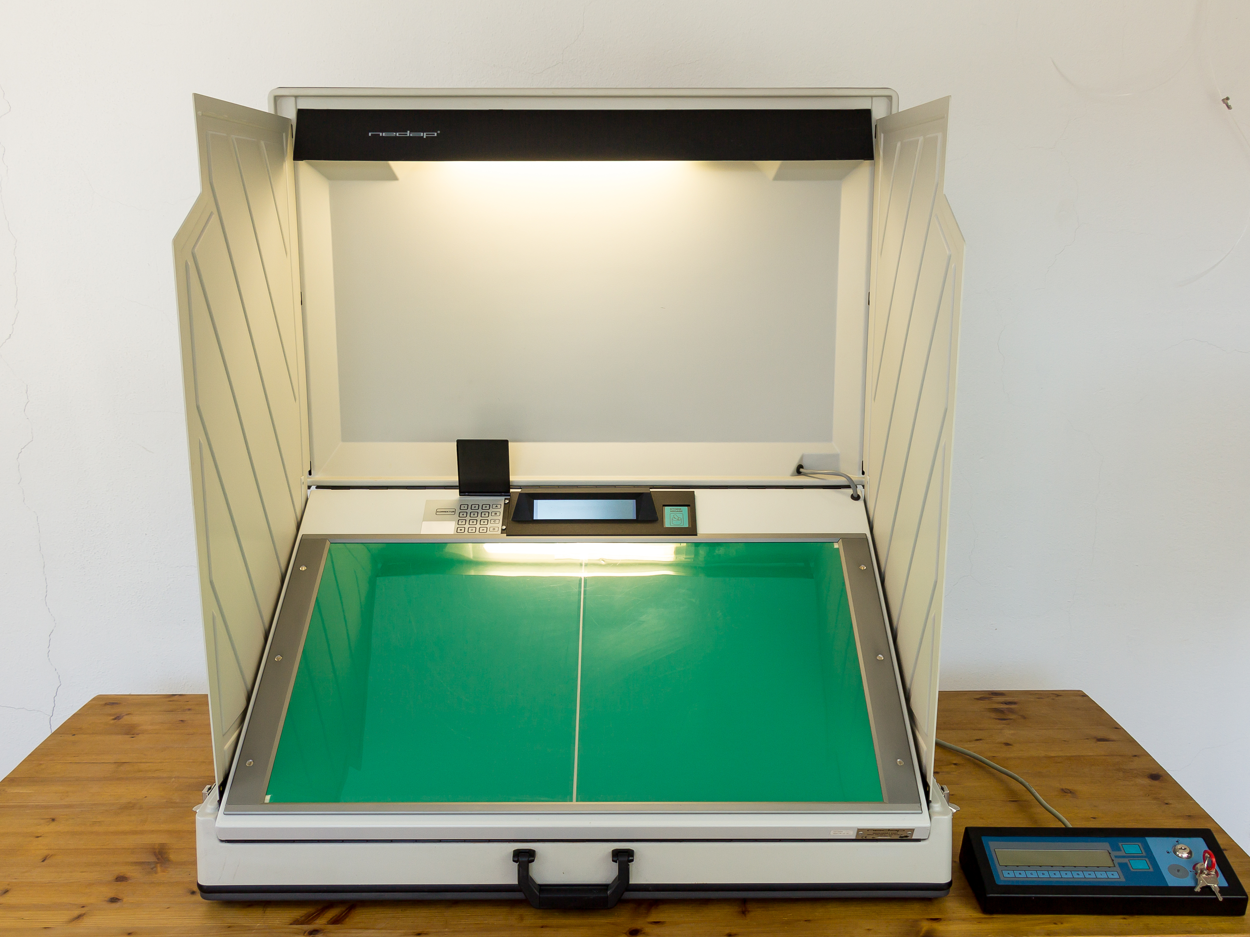 Nedap ESD1